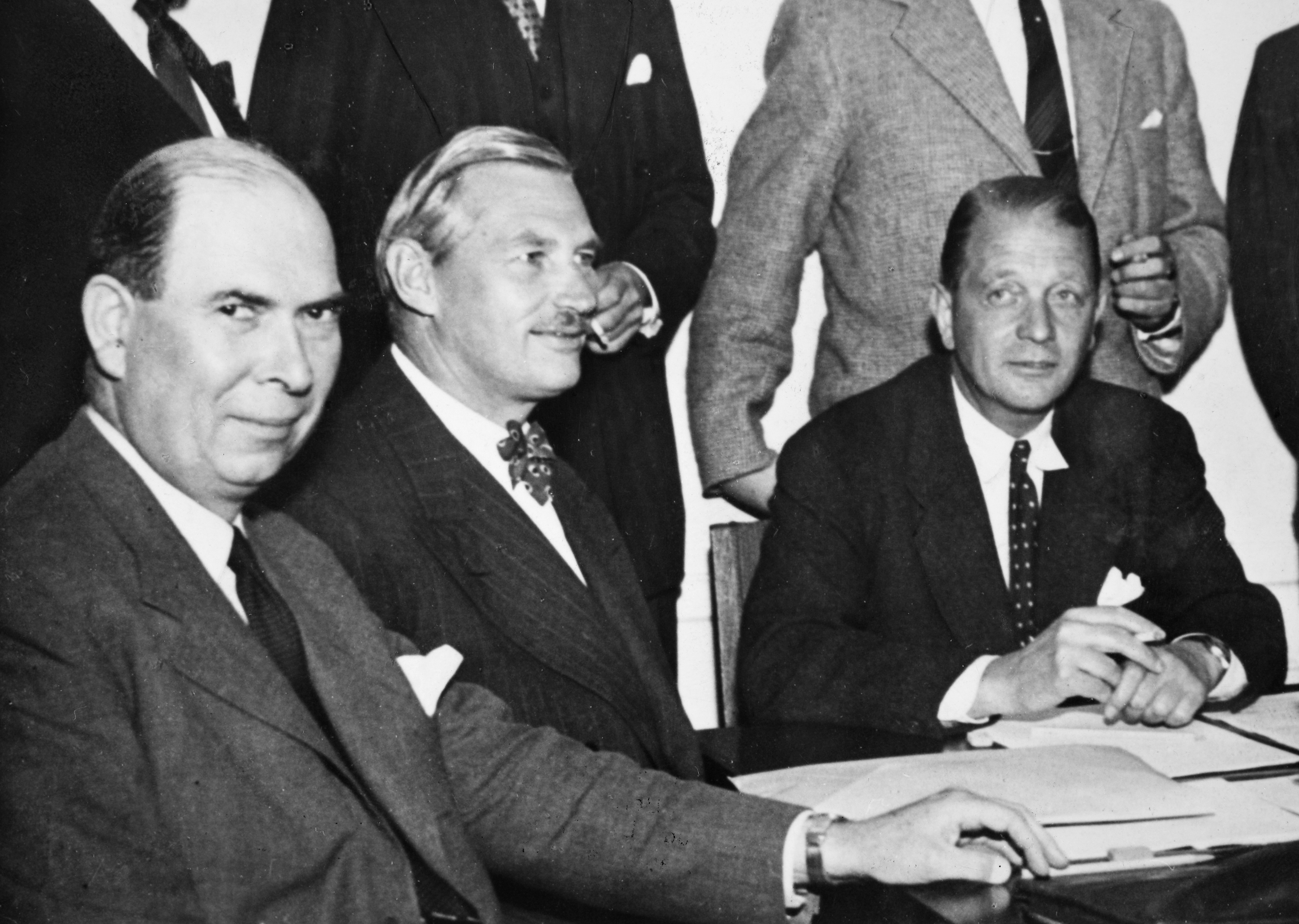 The SAS consortium established by signing agreement August 1946 in Stockholm. The founders were from left Thomas S Falck JR DNL, Marcus Wallenberg SILA, Per Kampmann DDL.